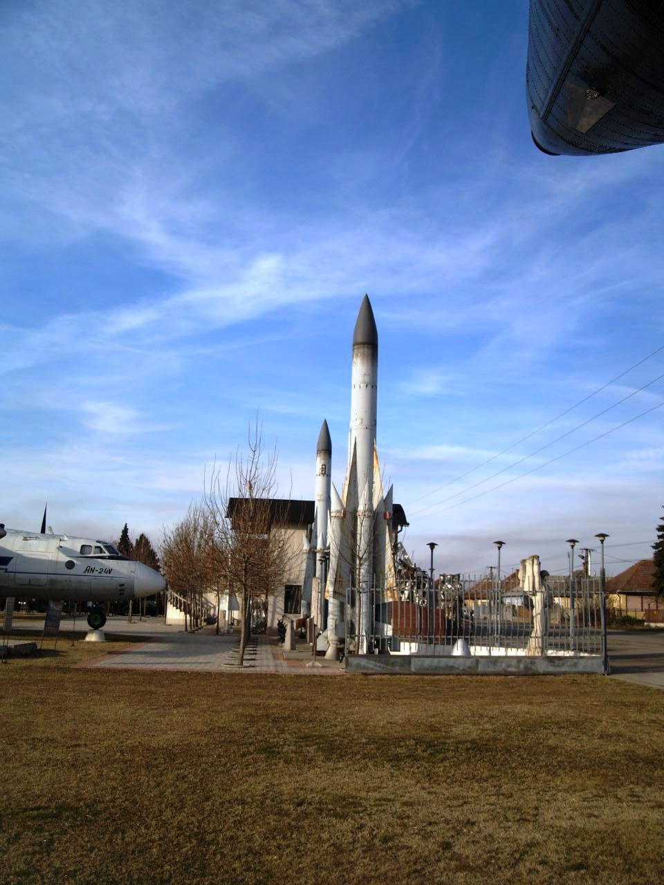 The Army History Museum and Park in Kecel.